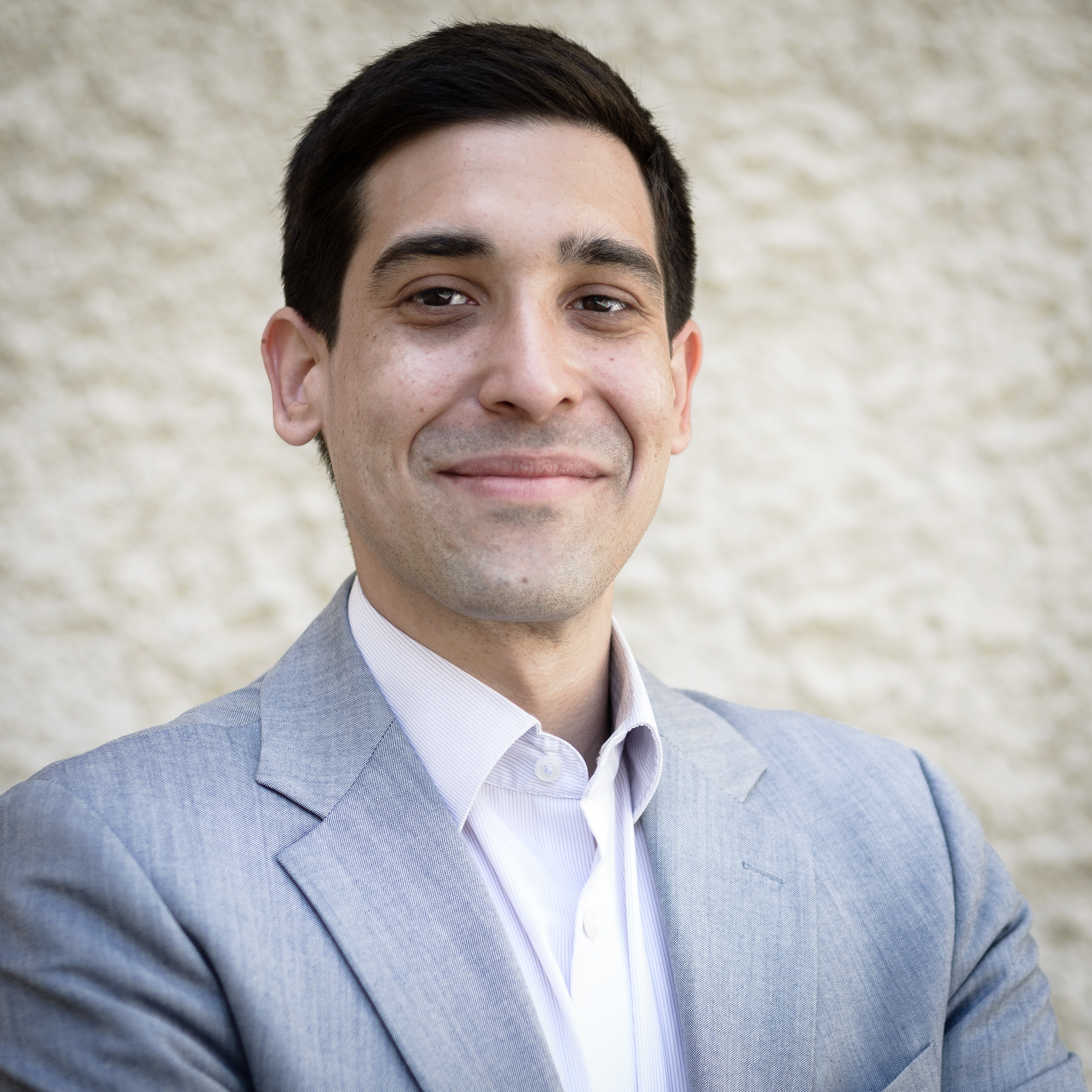 Portrait Sebastián Bohrn Mena, photographed by Sascha Osaka